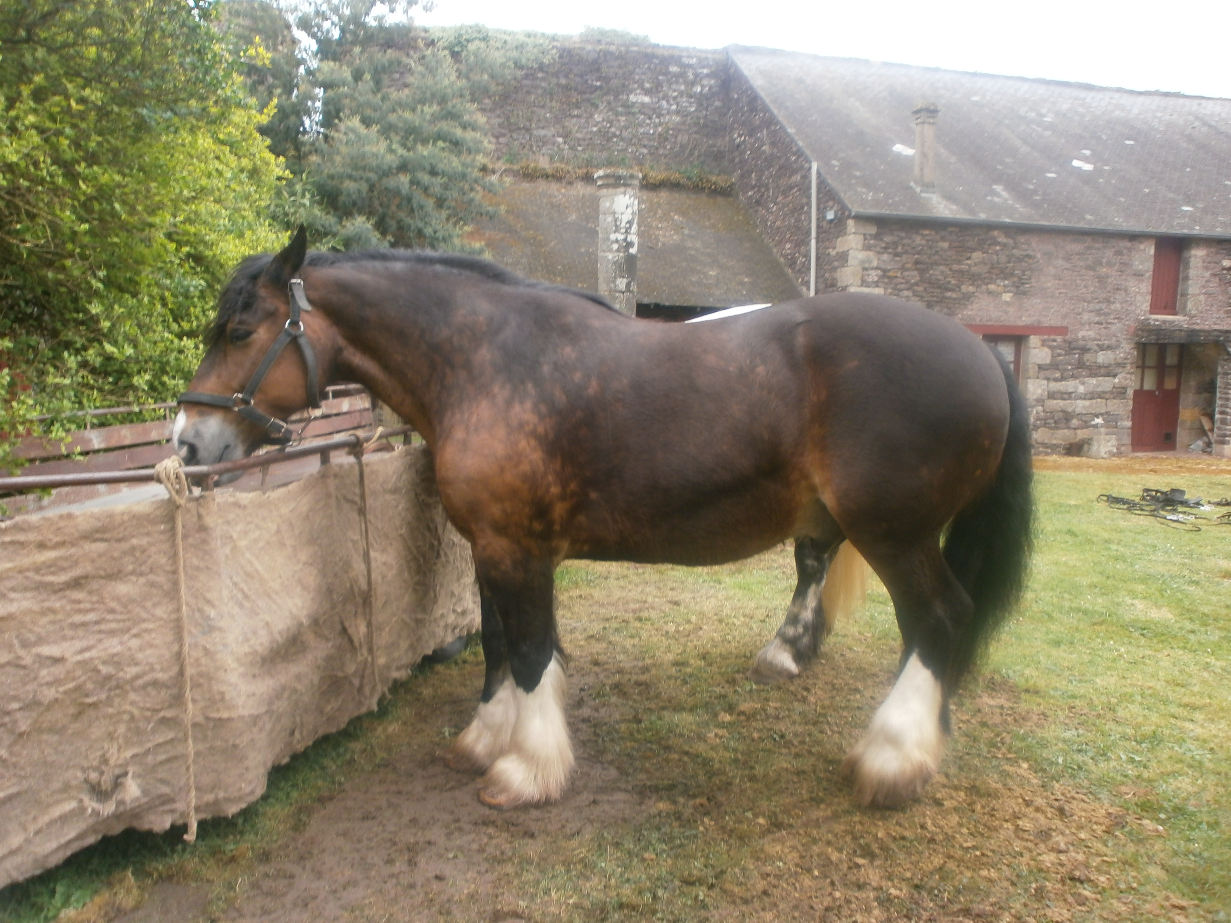 Breton x Shire draft horse crossed